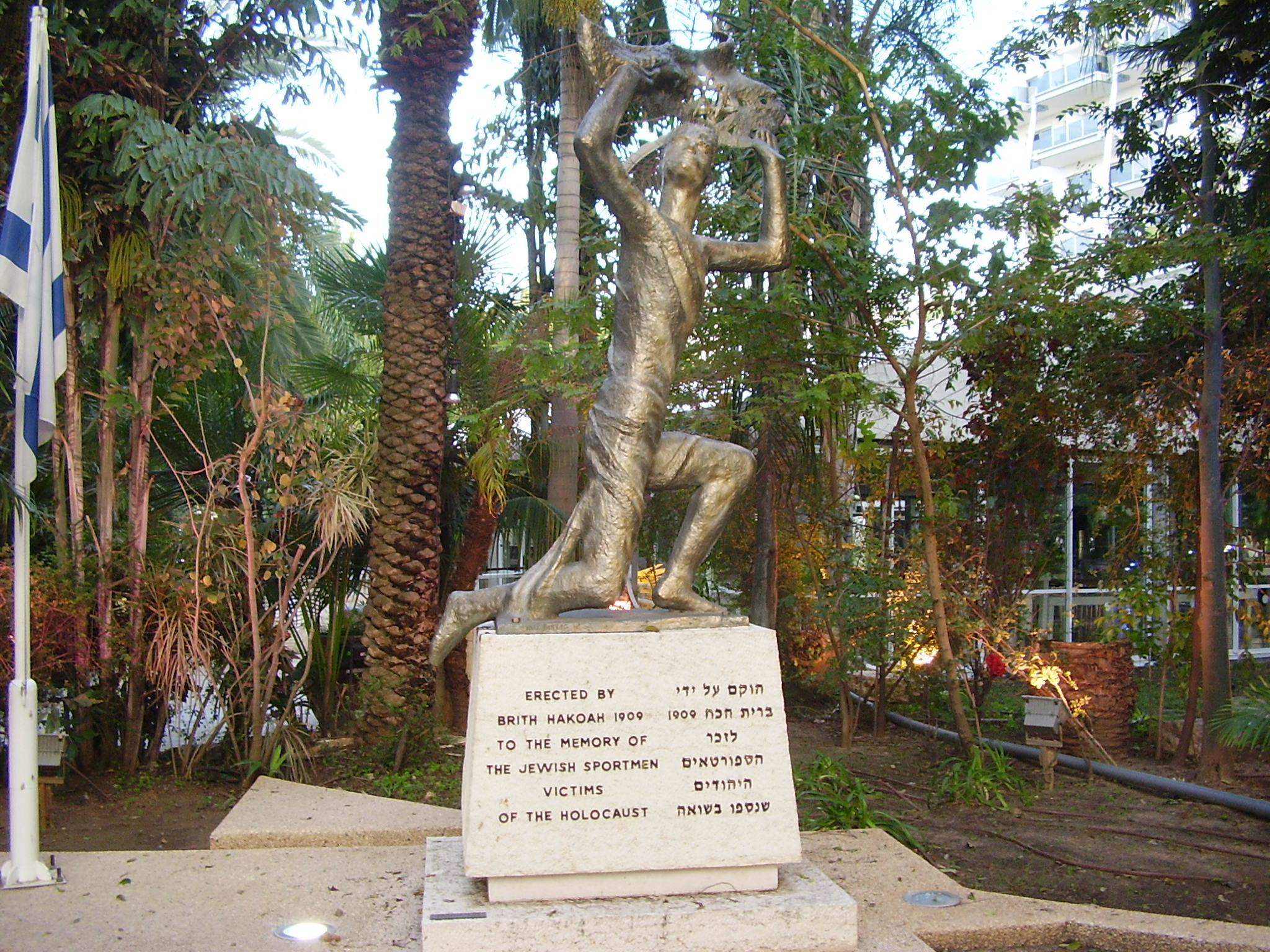 hakoah sport club memorial in ramat-gan, israel אנדרטה בכפר המכביה ברמת גן לספורטאי הכוח שנספו בשואה